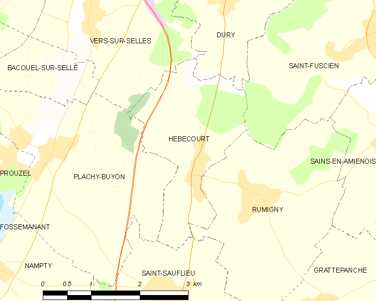 Map of French municipality Hébécourt